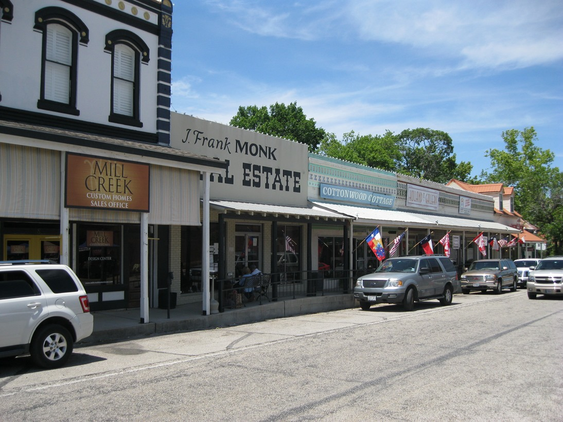 Photo shows stores along Holland Street on the courthouse square in Bellville, Texas. View is toward the north.